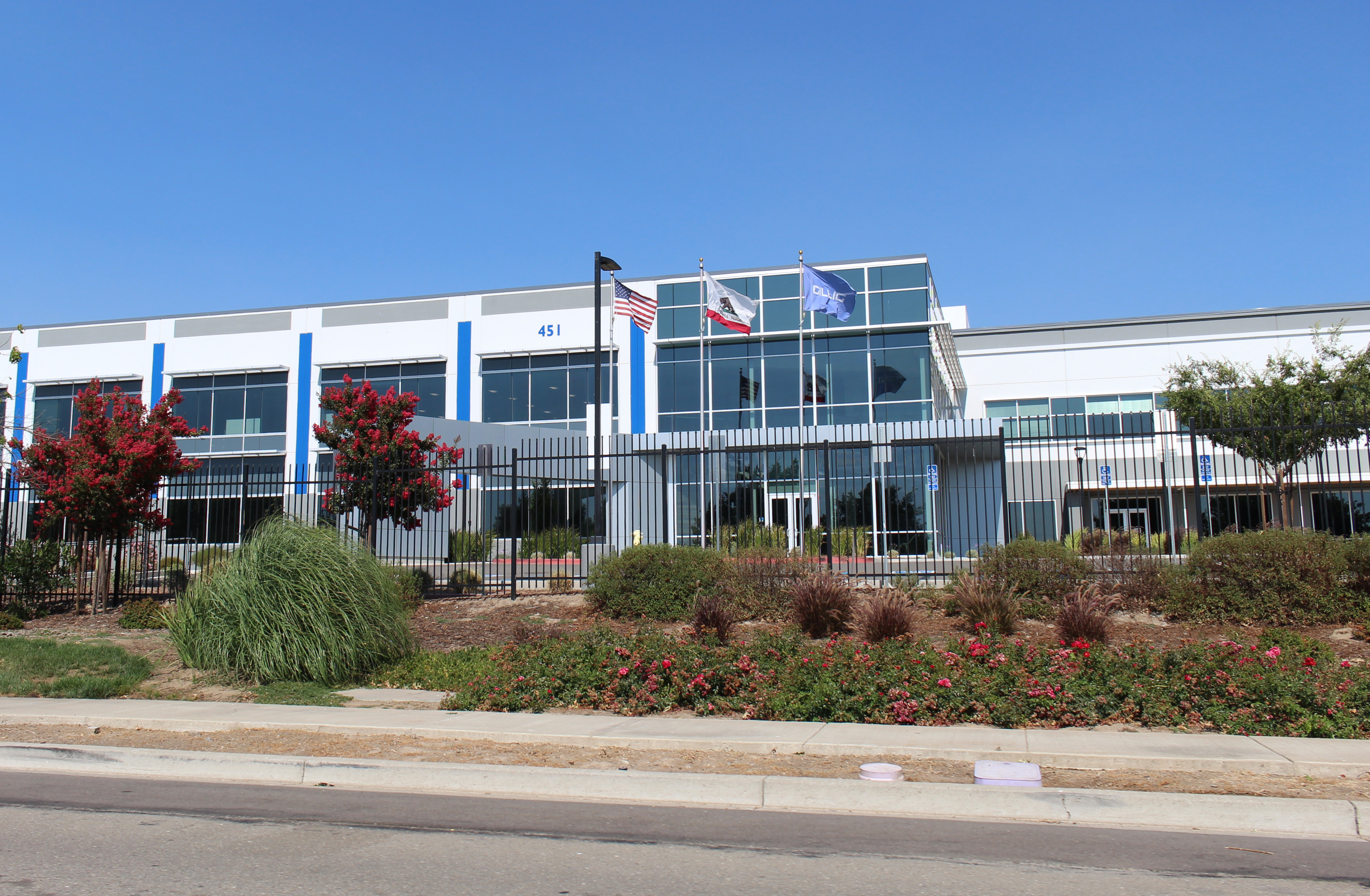 Gillig headquarters in Livermore, California. Photographed by user Coolcaesar on July 19, 2020.